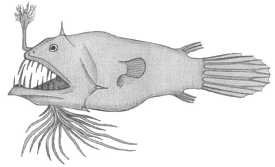 Linophryne polypogon Illustrated by Ray Simpson